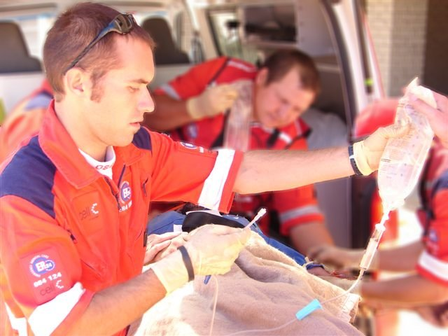 A paramedic preparing a intra-venous infusion for a patient